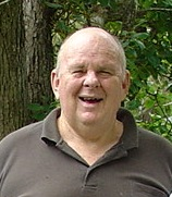 Australian poet Les Murray, photographed at his home farm, Bunyah, NSW